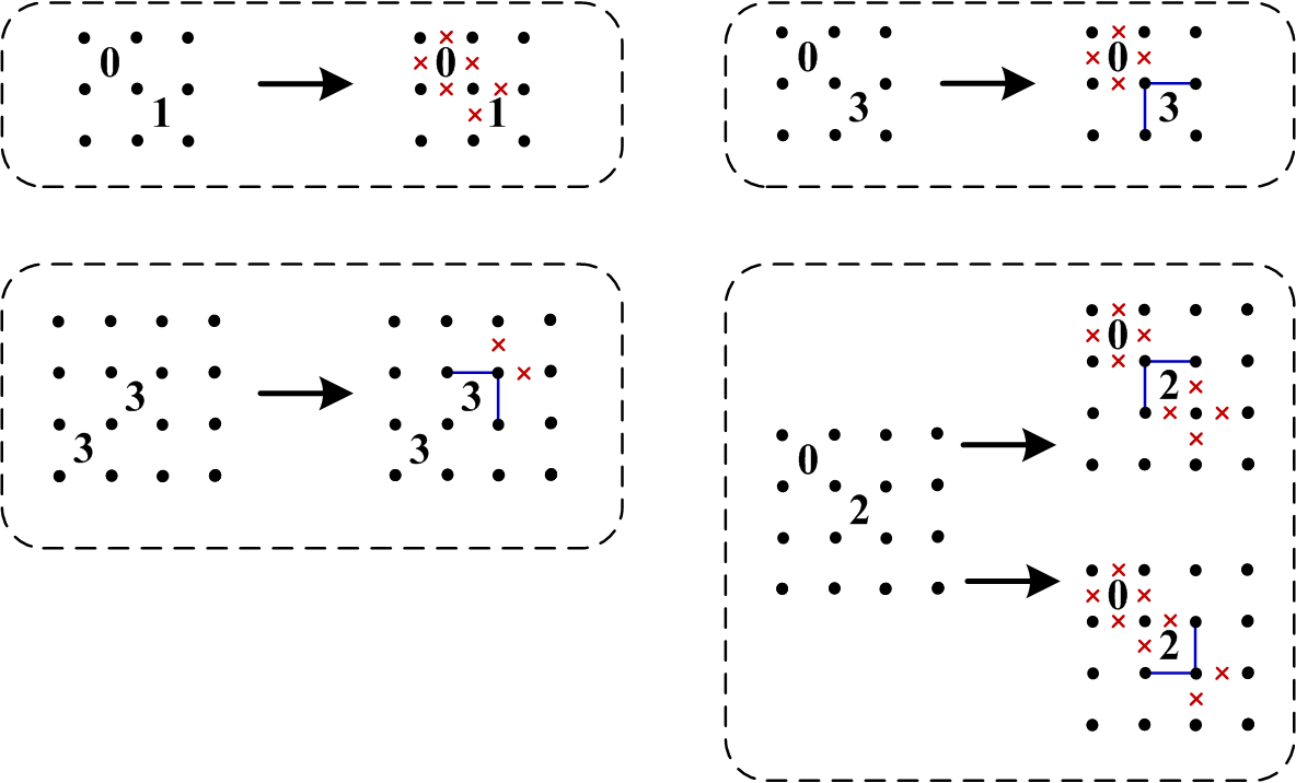 Slitherlink theorems